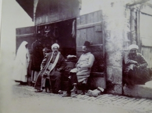 Shop on the Via Dolorosa near Eece Homo Arch, Jerusalem, 1891, form original silver print in "A Month in Palestine and Syria, April 1891" (author unknown).